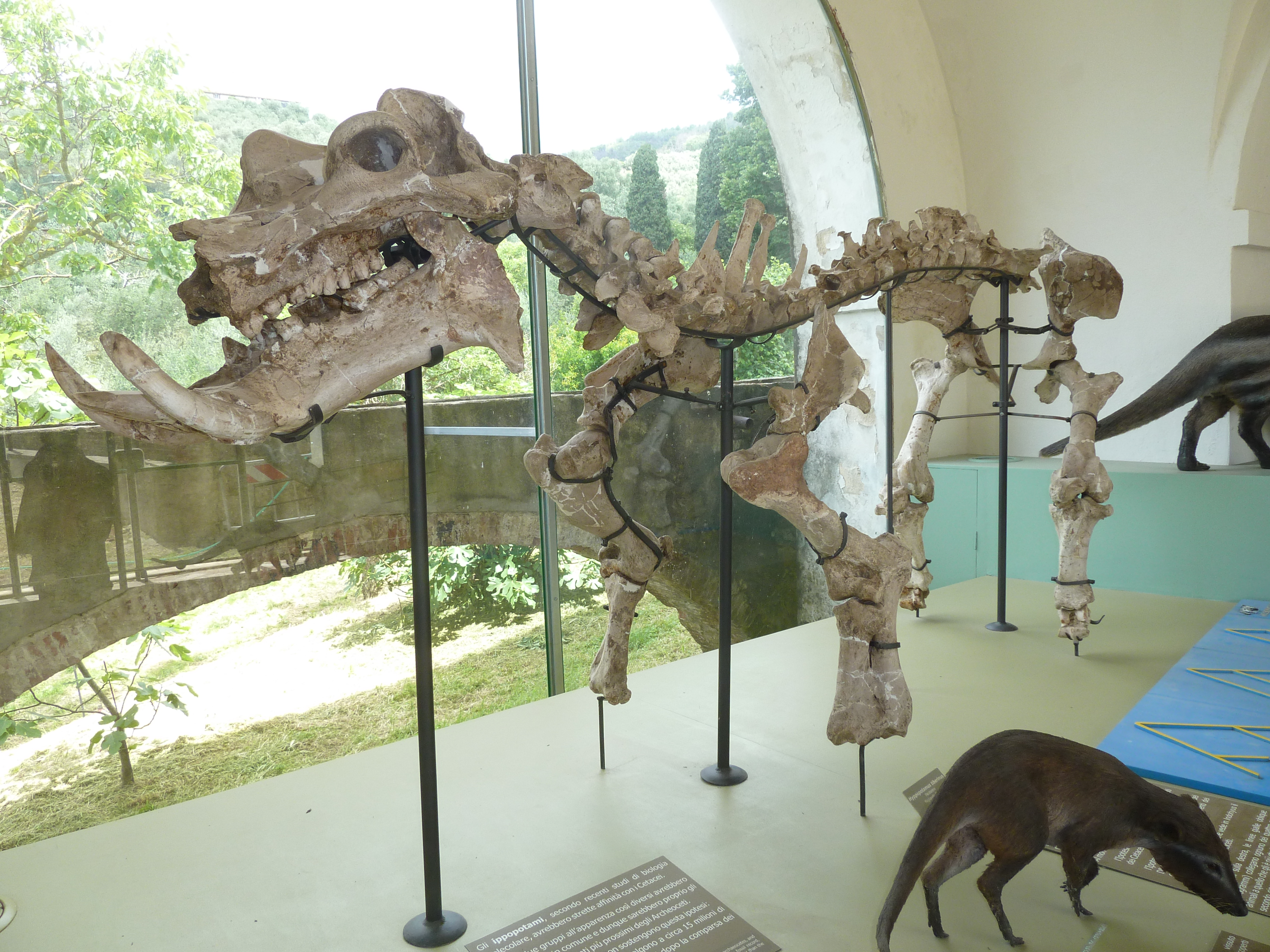 Hippopotamus tiberinus Mazza 1991 junior synonym of Hippopotamus antiquus Desmarest 1822 (fossil hippo) Pisa